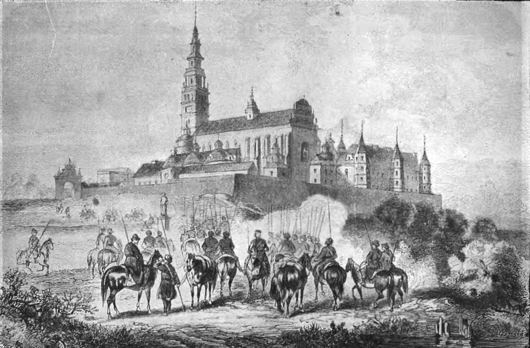 Polish forces in Częstochowa (January Uprising)